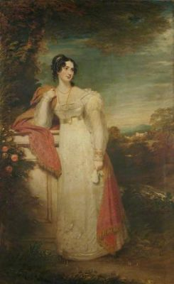 Elizabeth Cholmeley by William Beechey, 1825 Copyright Norfolk Museums & Archaeology Service (Norwich Castle Museum & Art Gallery) / Supplied by The Public Catalogue Foundation